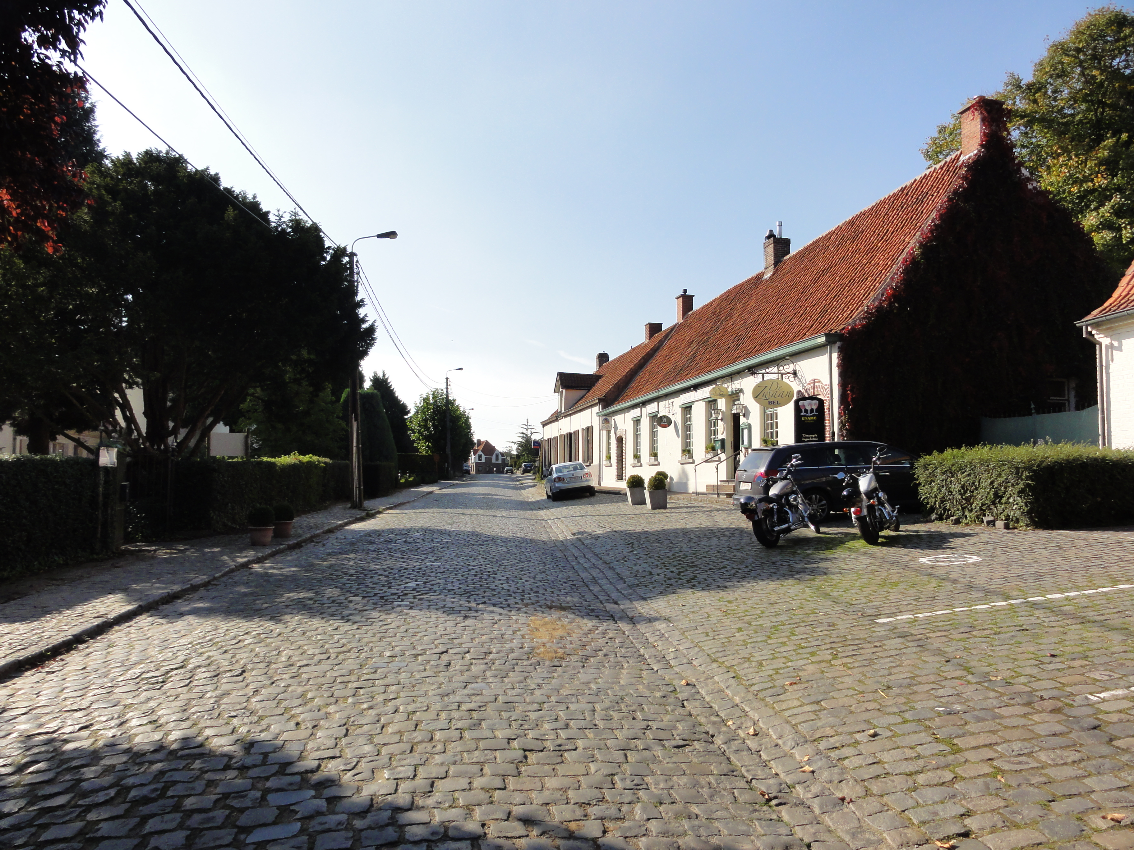 Restaurant and bistro "De Zwaan" at Wannegemdorp road in Wannegem. Wannegem, Wannegem-Lede, Kruishoutem, East Flanders, Belgium